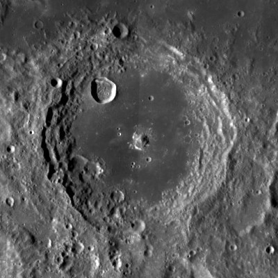 Neper lunar crater - LROC image